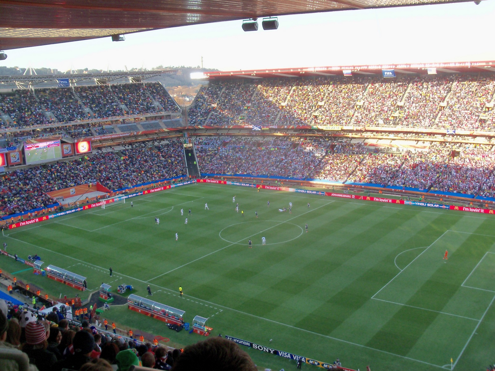 Slovenia - USA at FIFA World Cup 2010